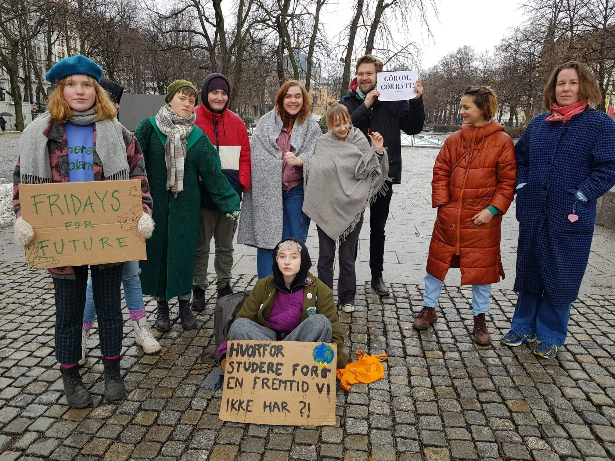 Climate strikers in Oslo, Norway.